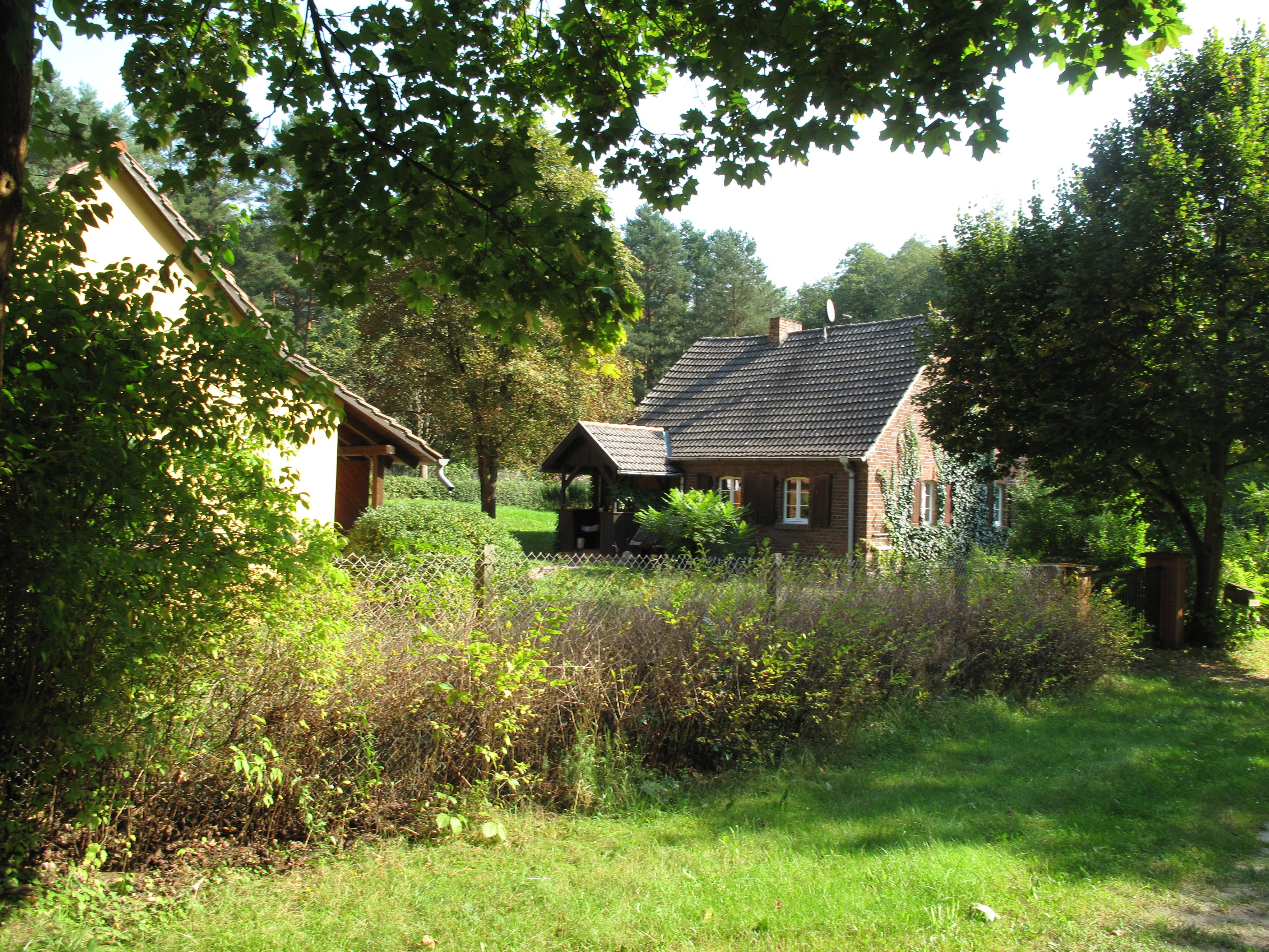 Area of the former Blabberschäferei (sheep farm) in Görsdorf. Görsdorf is a part of the municipality Tauche in the District Oder-Spree, Brandenburg, Germany. The area was purchased in 1968 by the author Günter de Bruyn.